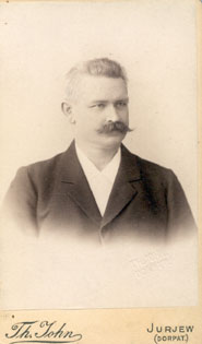 Karl Dietrich Gerhard BarfurthEesti: Barfurth, Karl Dietrich Gerhard (1849-1927), arstiteadlane, Tartu Ülikooli võrdleva anatoomia, embrüoloogia ja histoloogia professor 1889-1896